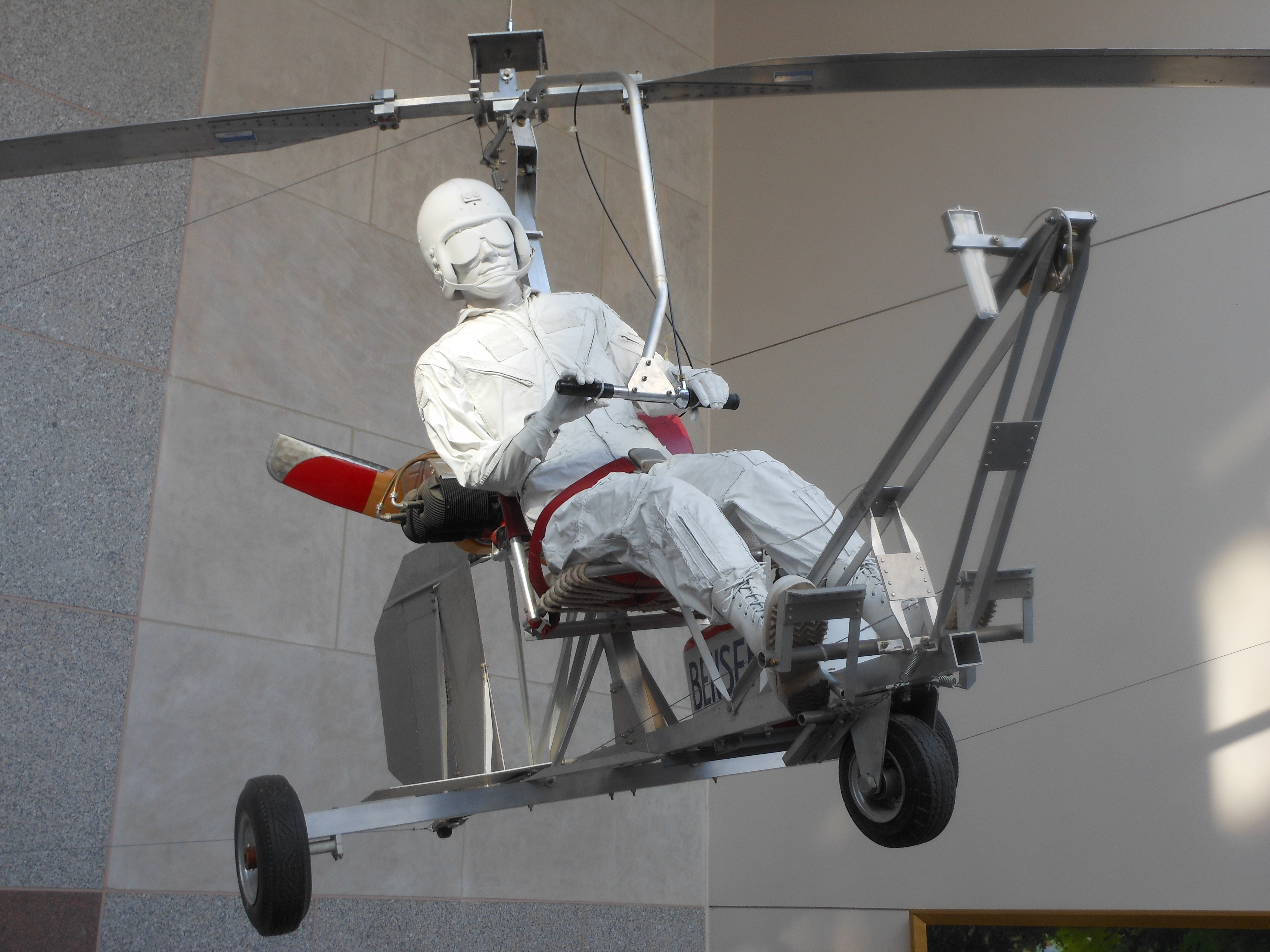 Igor Bensen with his Bensen B-7M autogyro, (modified from his B-7 Gyro-glider), at the North Carolina Museum of History